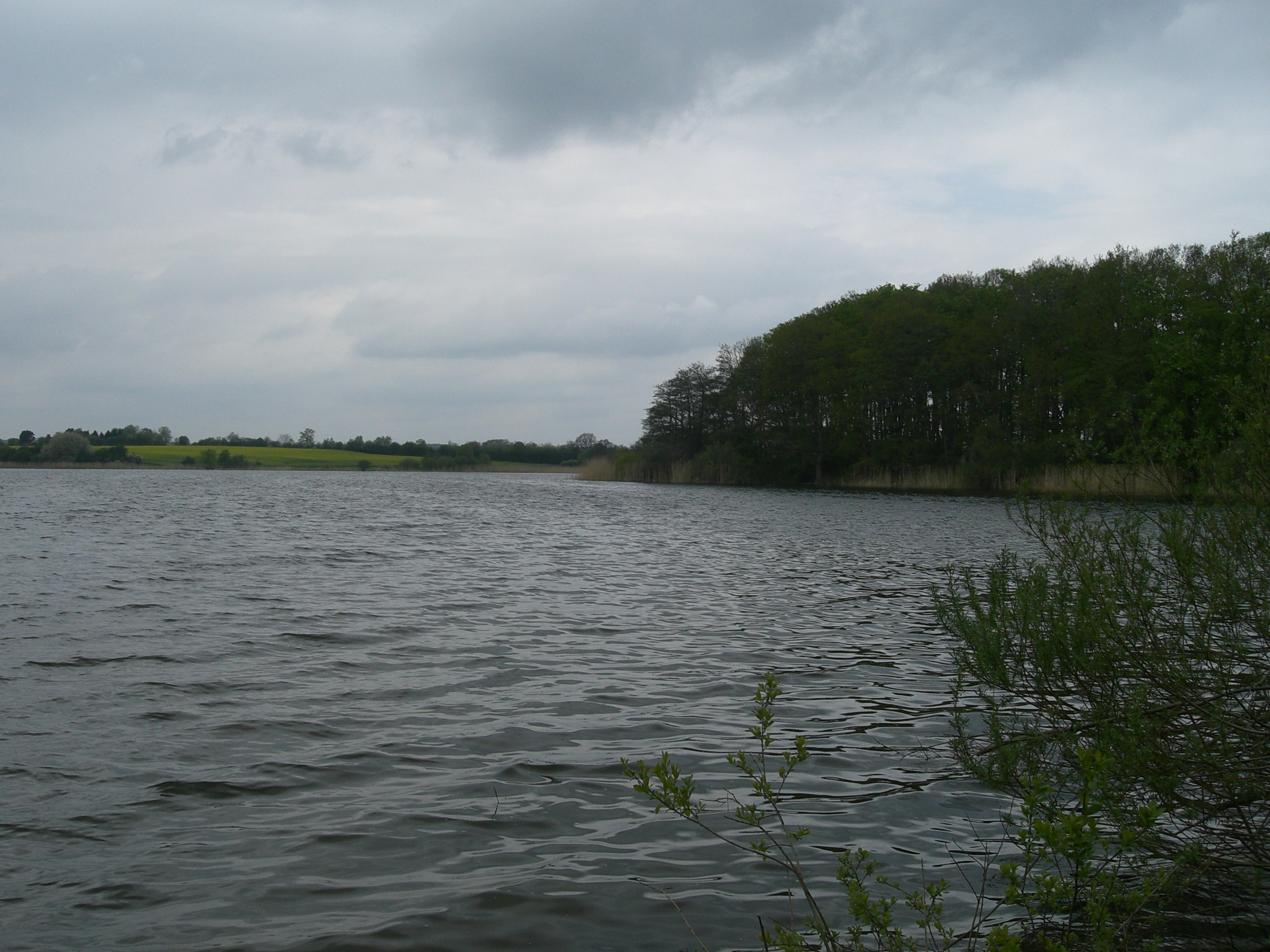 Postsee, a lake West of Preetz, Schleswig-Holstein, Germany. Picture taken about 100 m North of the mouth of the Alte Schwentine leaving the lake.